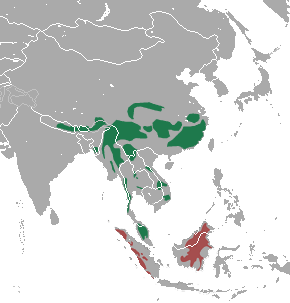 Derived from species maps.